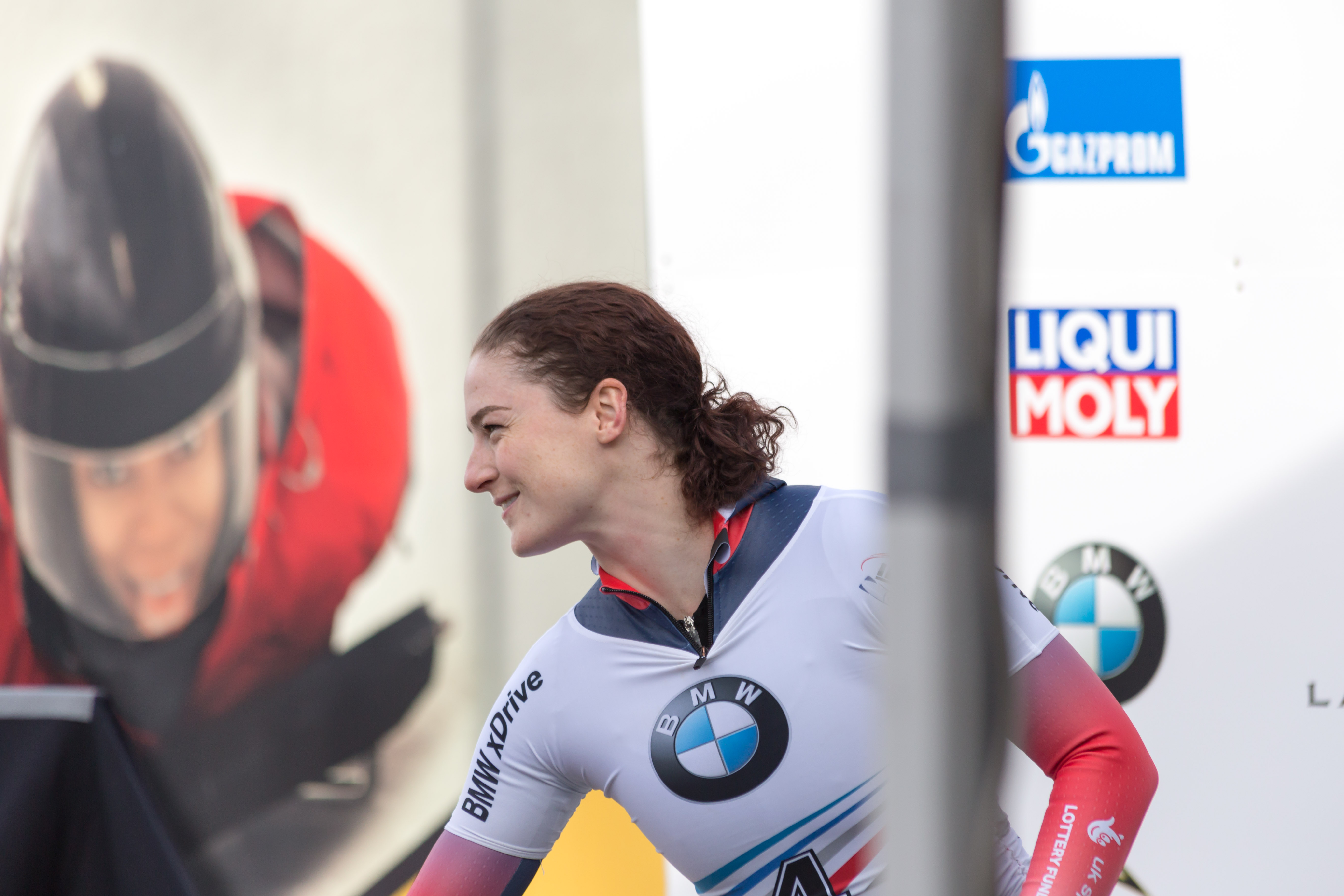 British skeleton athlete Laura Deas stands in the leader's box after her second run at the 2017/2018 BMW IBSF World Cup race in Lake Placid. She finished in fifth place with a combined time of 1:50.69.